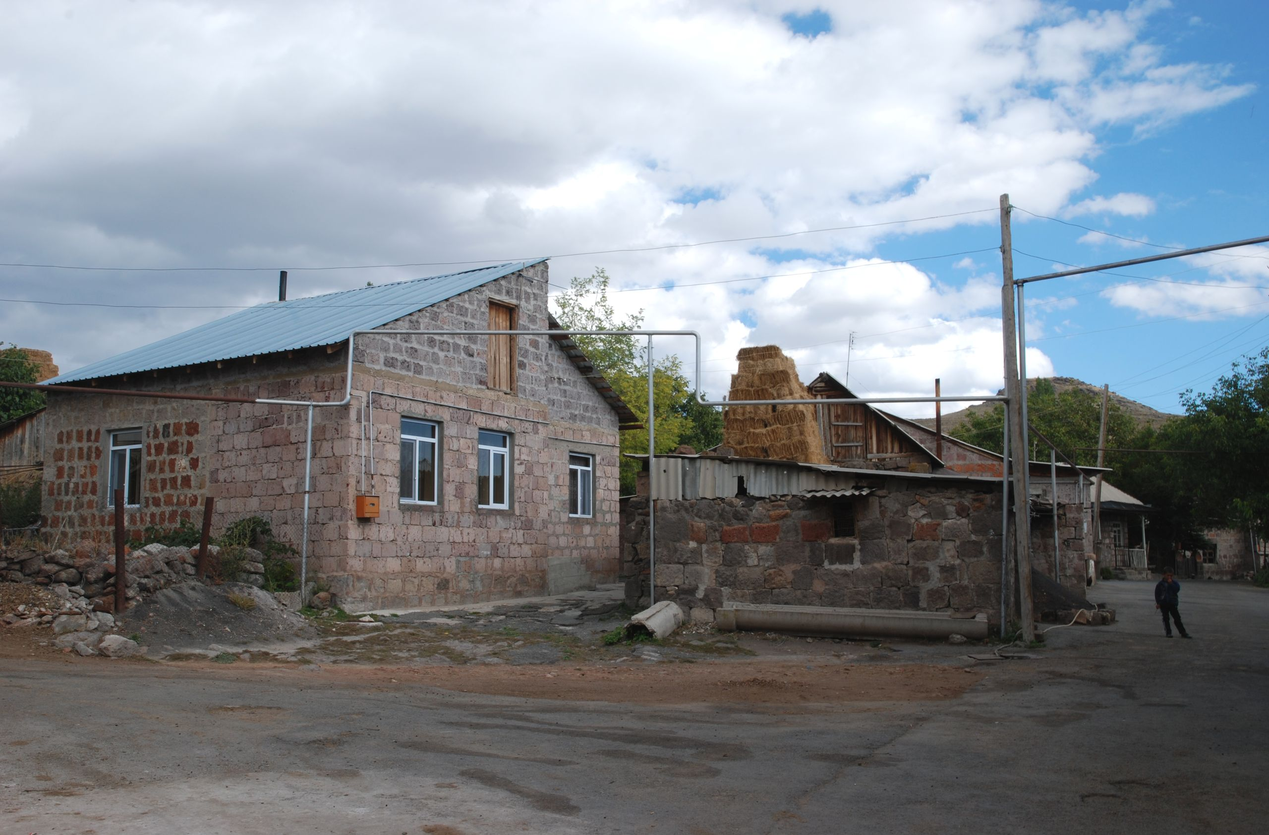 Irind, village center